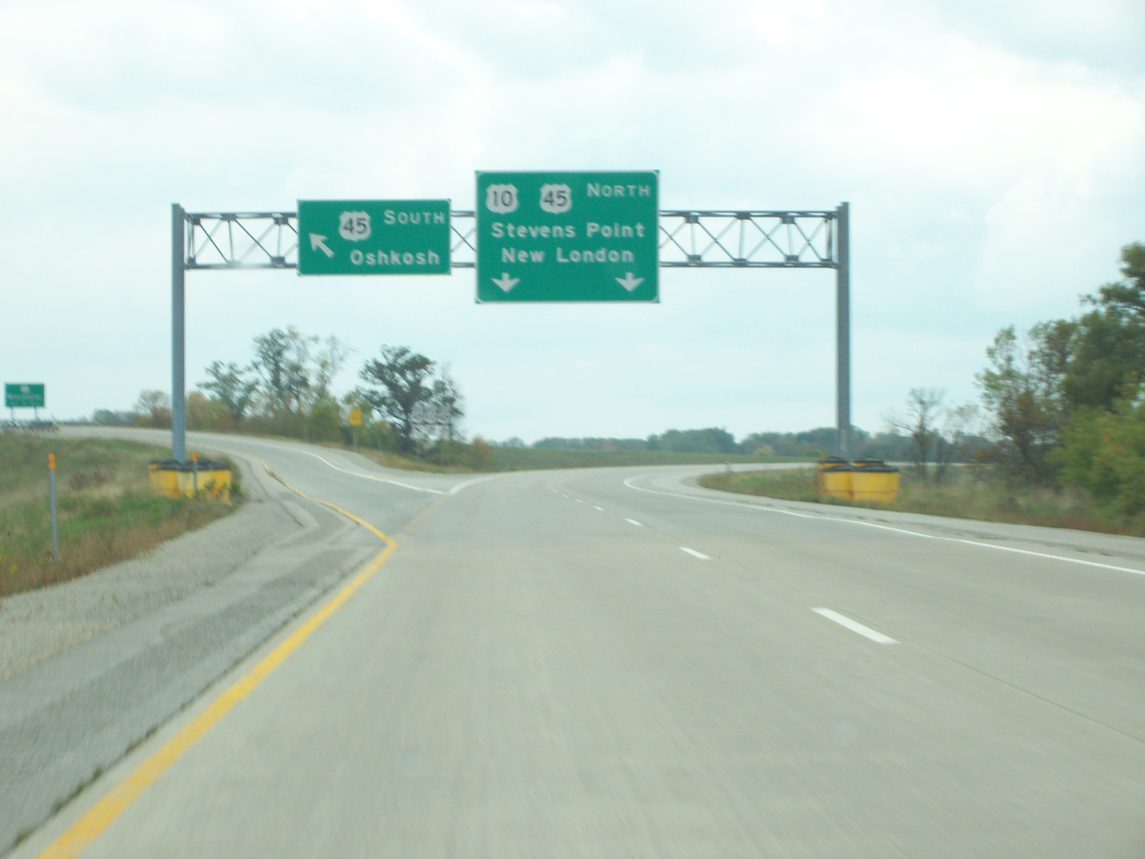 U.S. Route 10 at its southeast junction with U.S. Route 45 in Winnebago County, Wisconsin. This image was taken on September 23, 2006 by User:Royalbroil. Category:Images of Wisconsin highways